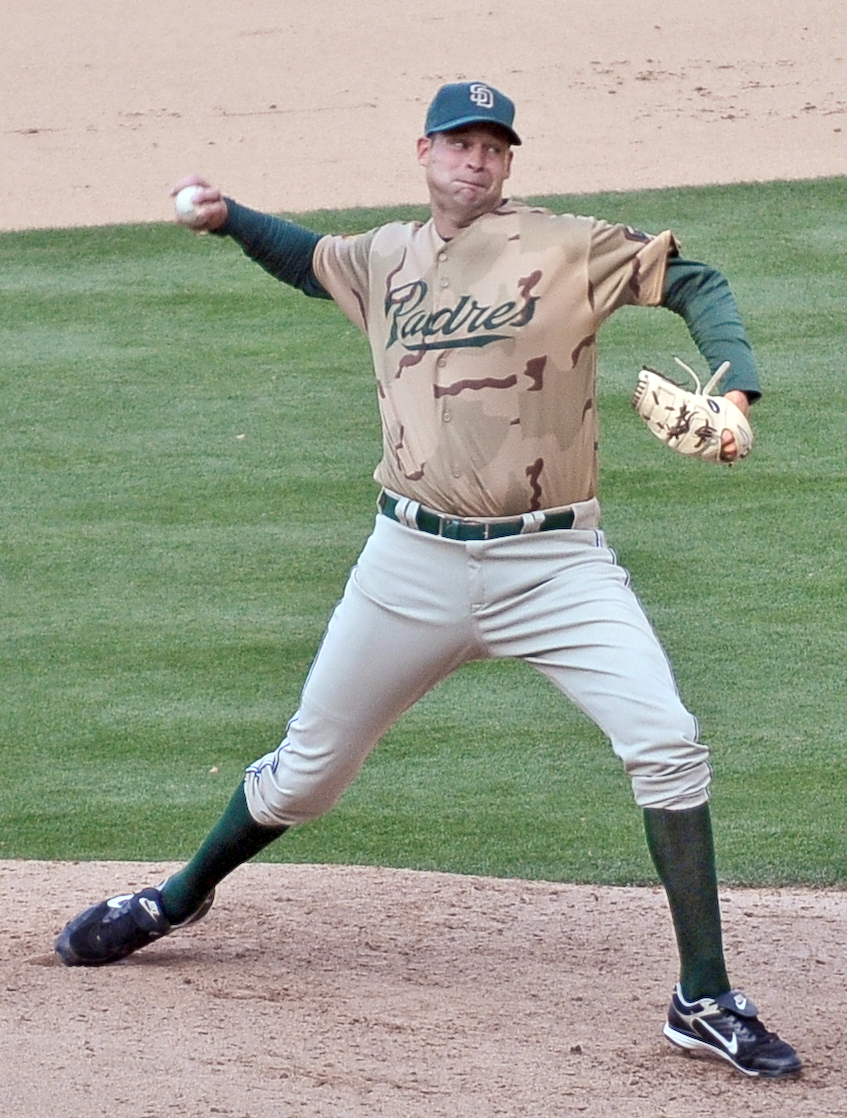 Scott Patterson 09/14/2008 at Petco Park